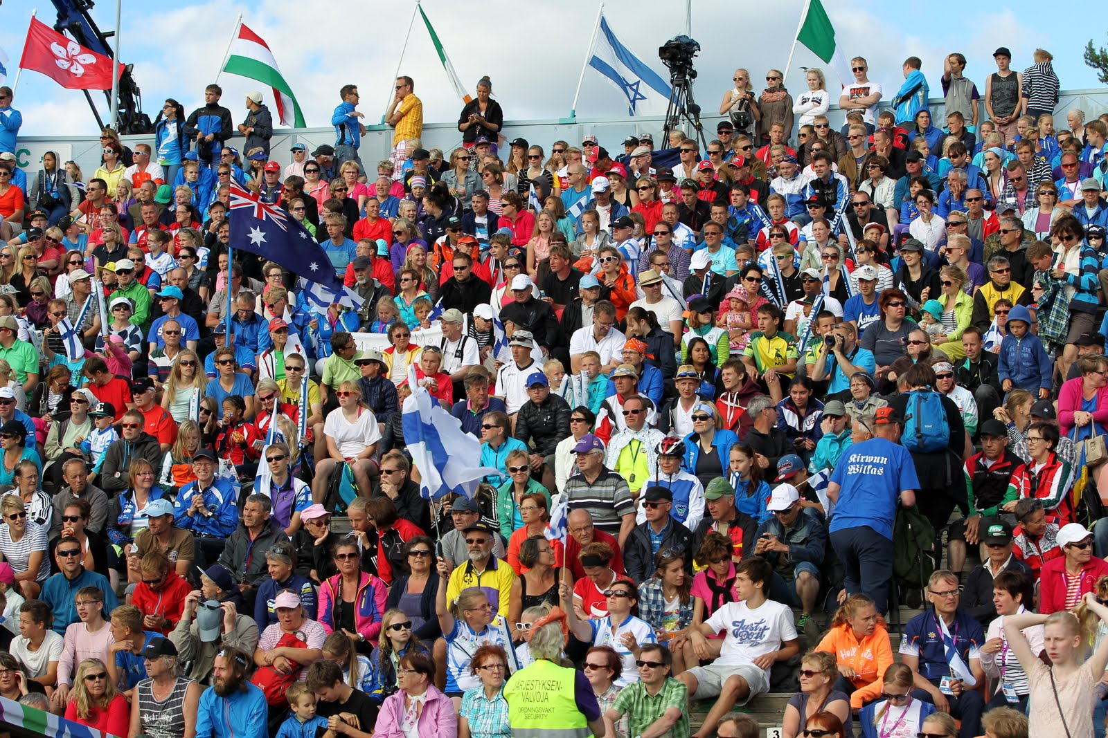 Sprint final 2013, WOC 2013, 38